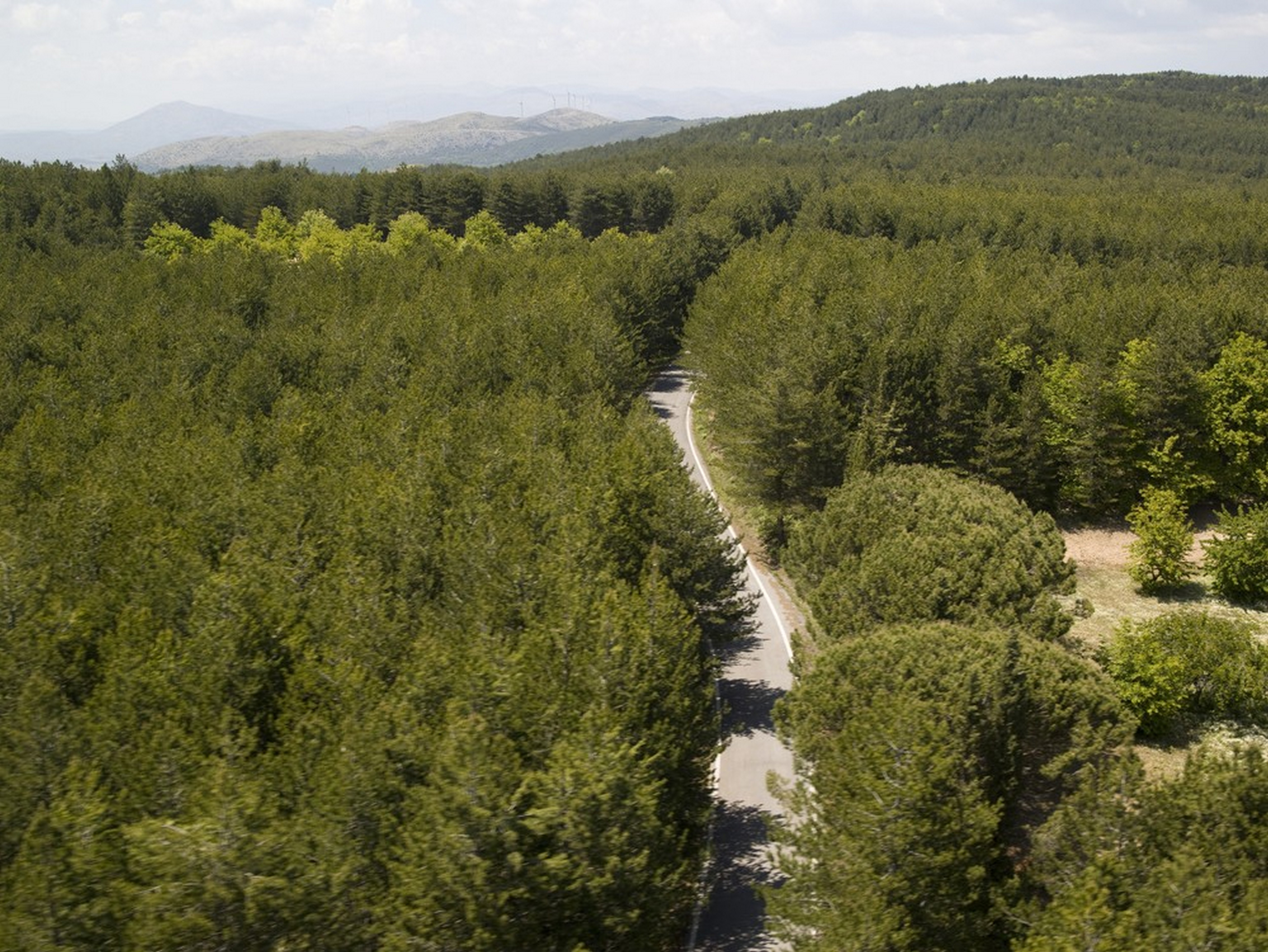 Road passing through the forest of Skiritida.